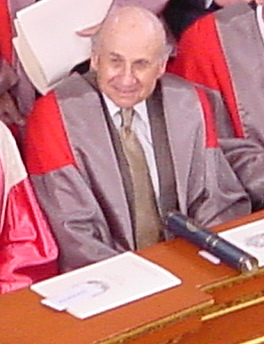 Walter Kohn after receiving his honorary doctorate at The University of Oxford (during the 2001 Encaenia).